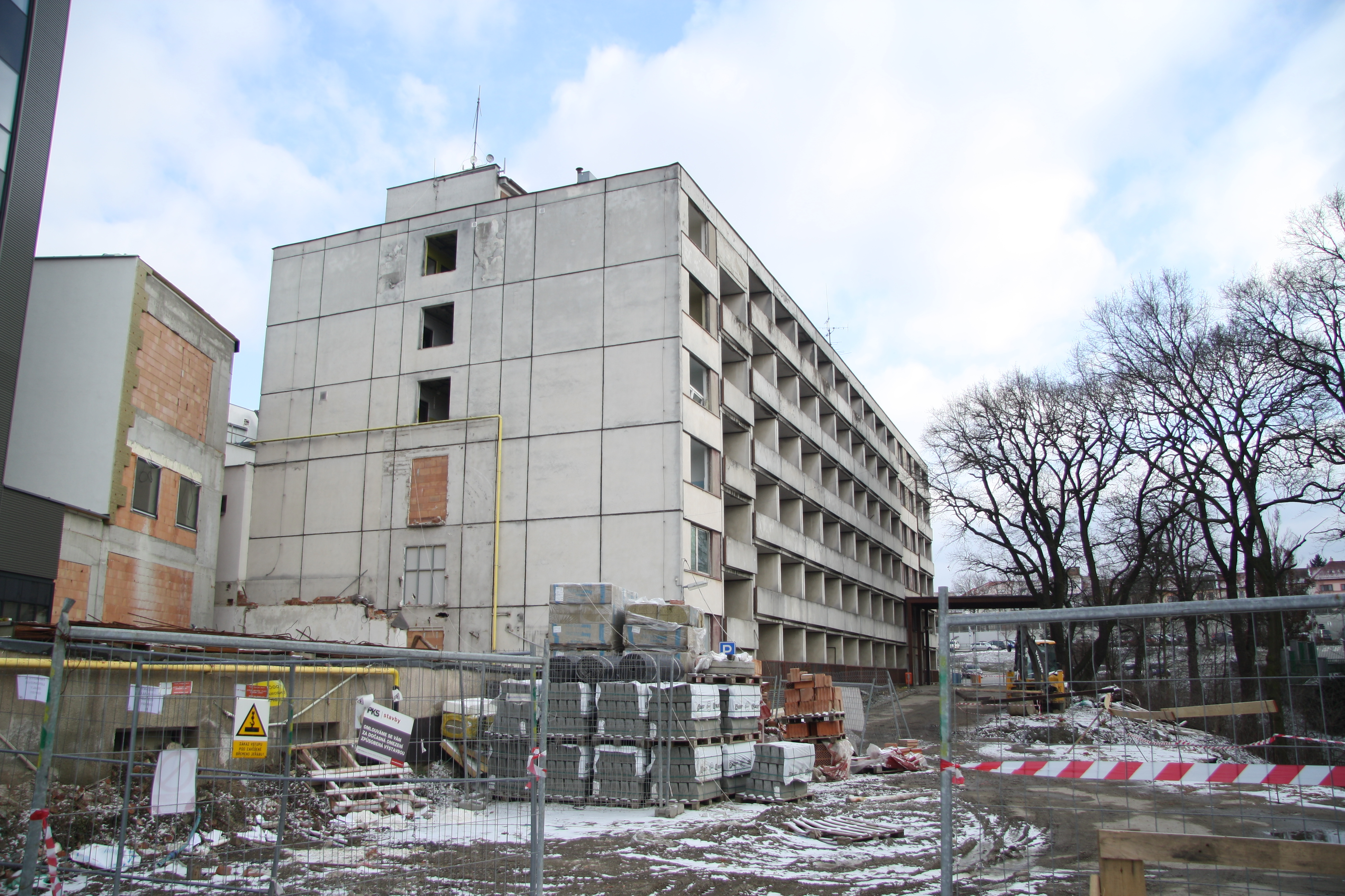 Back part of building Ch in Třebíč Hospital in Třebíč, Třebíč District.